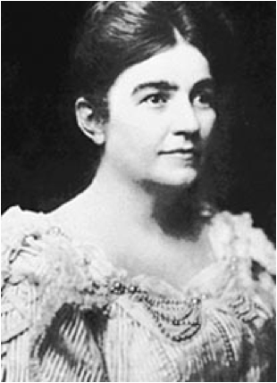 photo of Gene Stratton-Porter